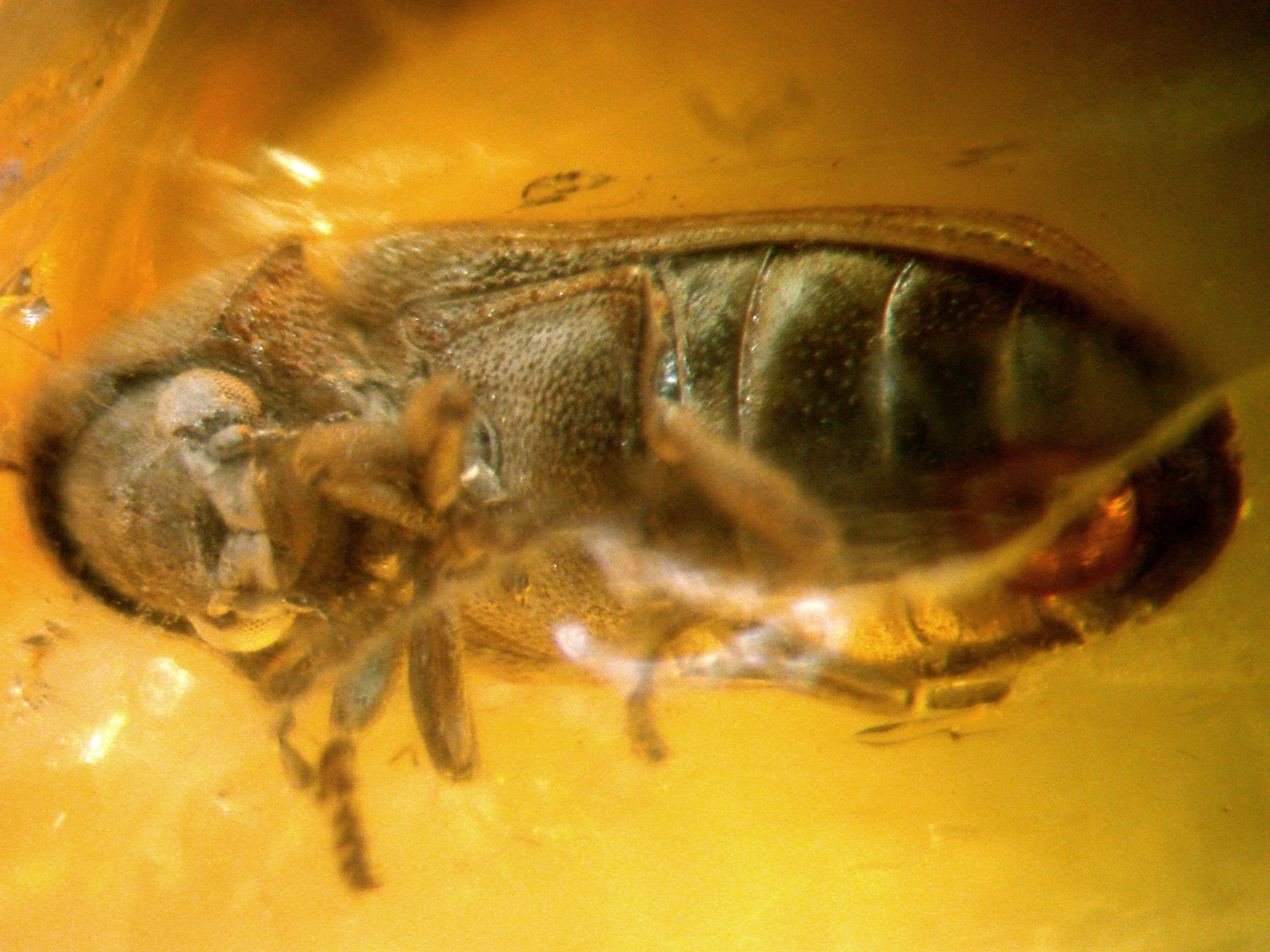 Baltic amber inclusions - 50 million years old - Coleoptera, Anobiidae, ...?